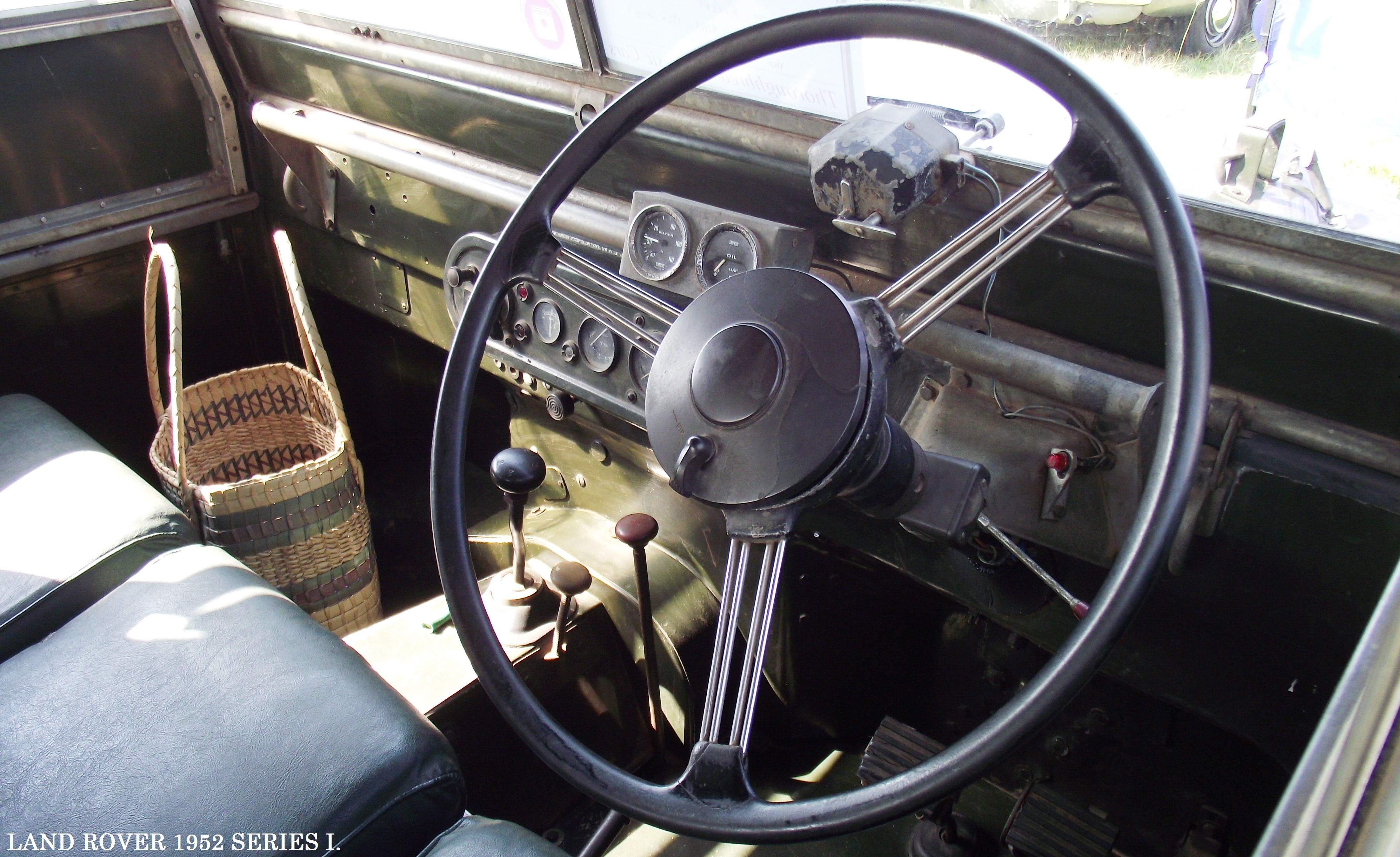 1952 Land Rover Series IClassic Car Show, Delta Park Johannesburg